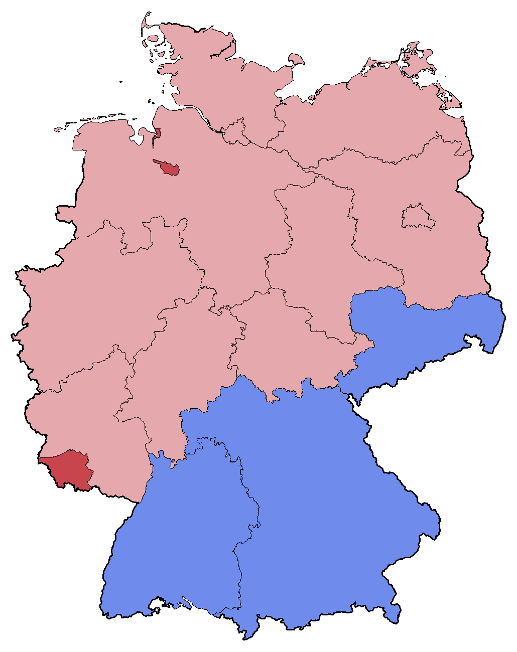 Electoral map showing the party list vote results (Zweitstimmen) of the 1998 Bundestag (German parliament) elections by state. Red denotes states where the SPD had the absolute majority of the votes; pink denotes states where the SPD had the plurality of the votes; and light blue denotes states where CDU/CSU had the plurality of votes.